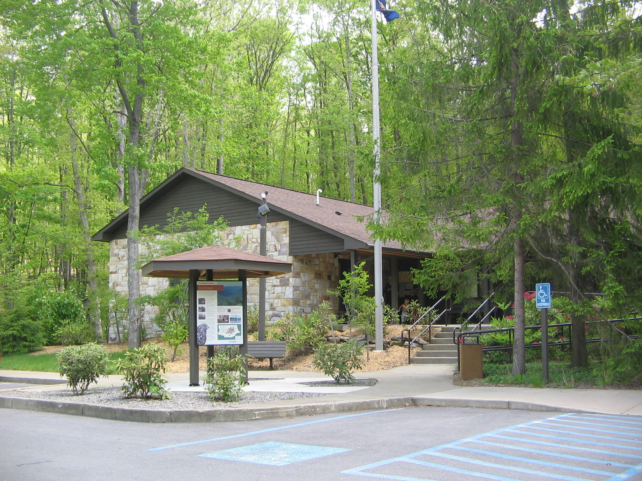 Park Headquarters and Ranger Satation at Black Moshannon State Park, near Phillipsburg, Rush Township, Centre County, Pennsylvania, USA.